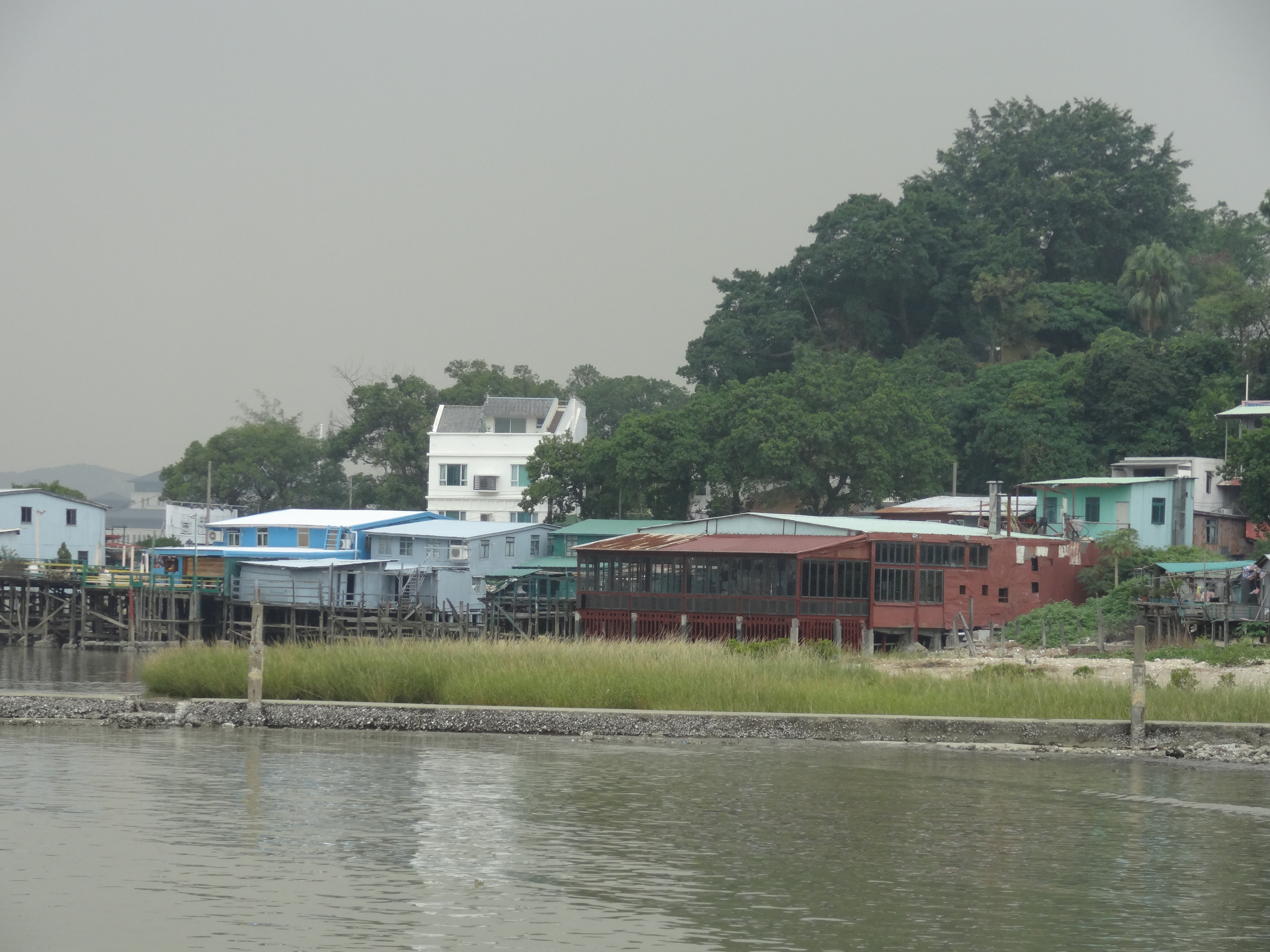 Coloane Village, looking toward the monument dedicated to the fight against piracy